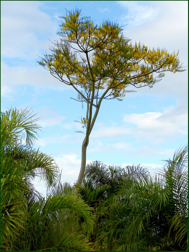 Very fast growing tree, native to South America. Photographed in suburban Brisbane, Australia. Click here to see all my photos of this beautiful tree